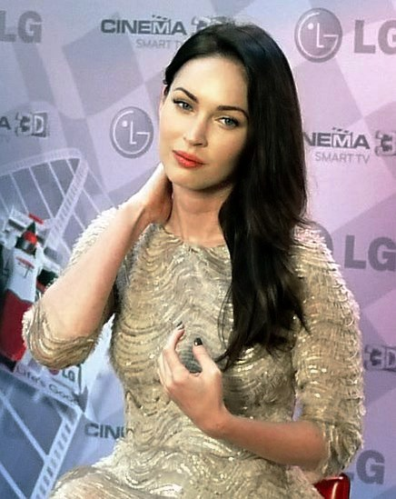 Megan Fox in LG Brings Cinema 3D TV To New Markets 2011.